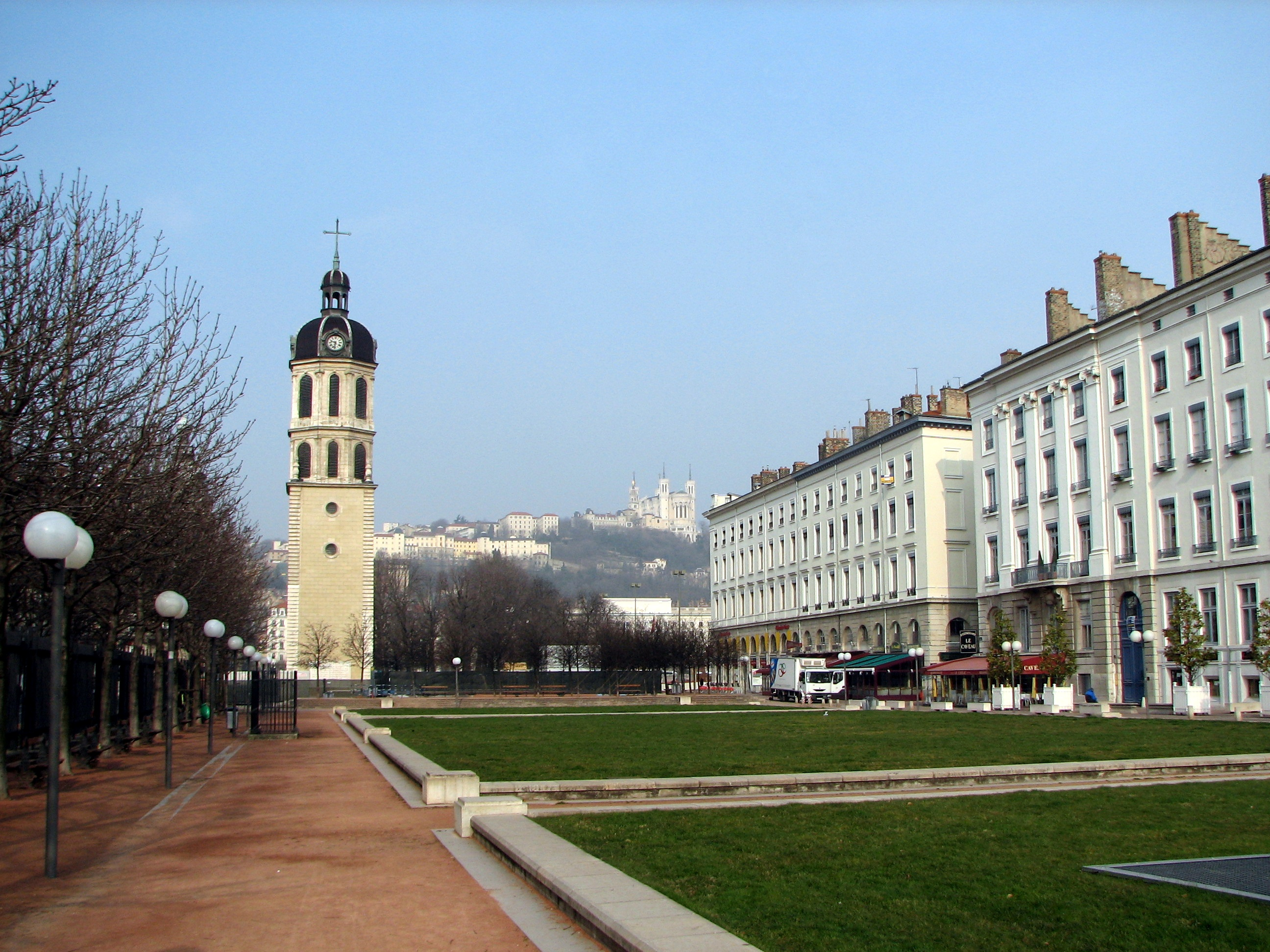 View of the Place A. Poncet in Lyon. In the back you can see the Basilica Notre Dame de Fourviere